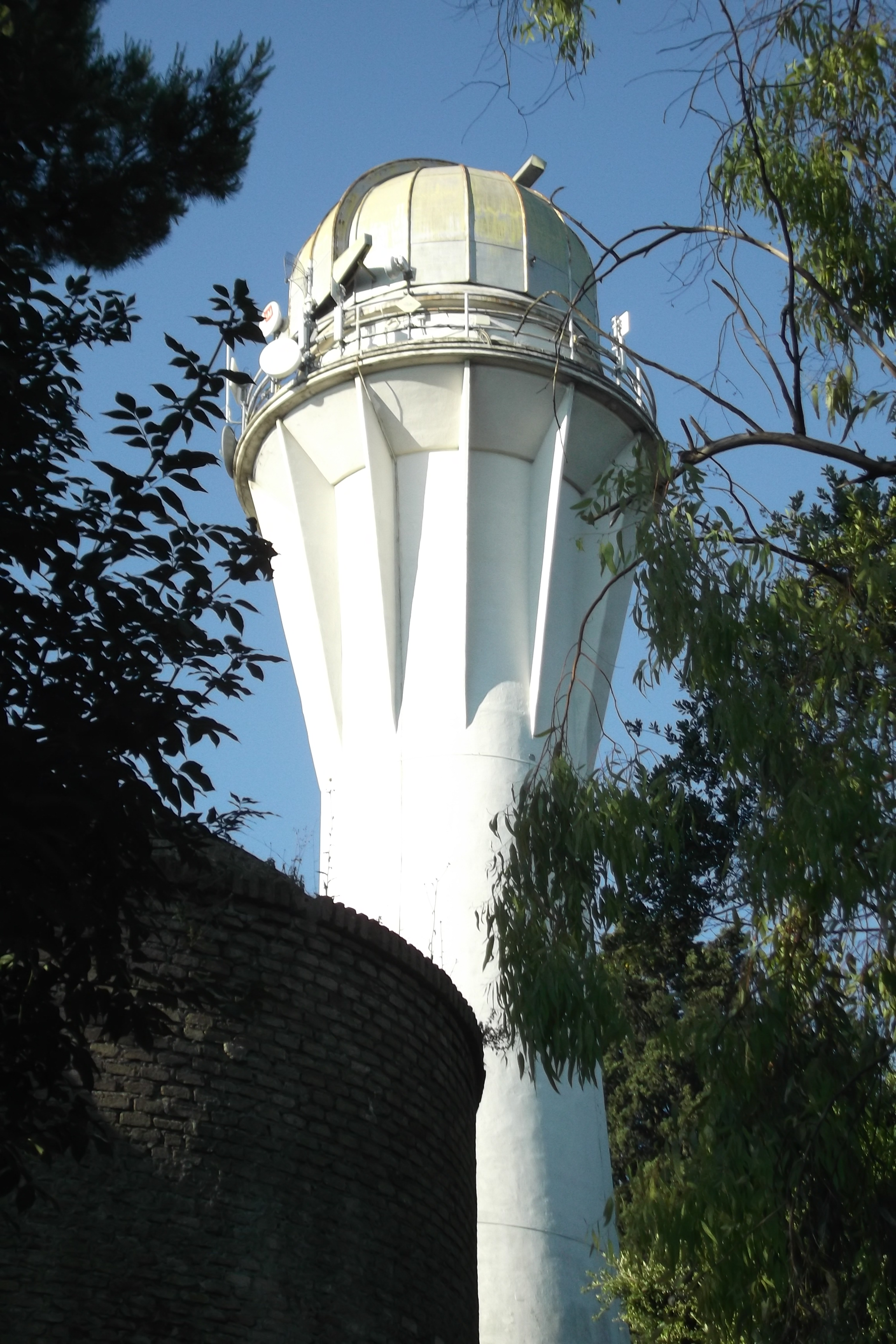 Astronomic observatory in Rome Monte Mario